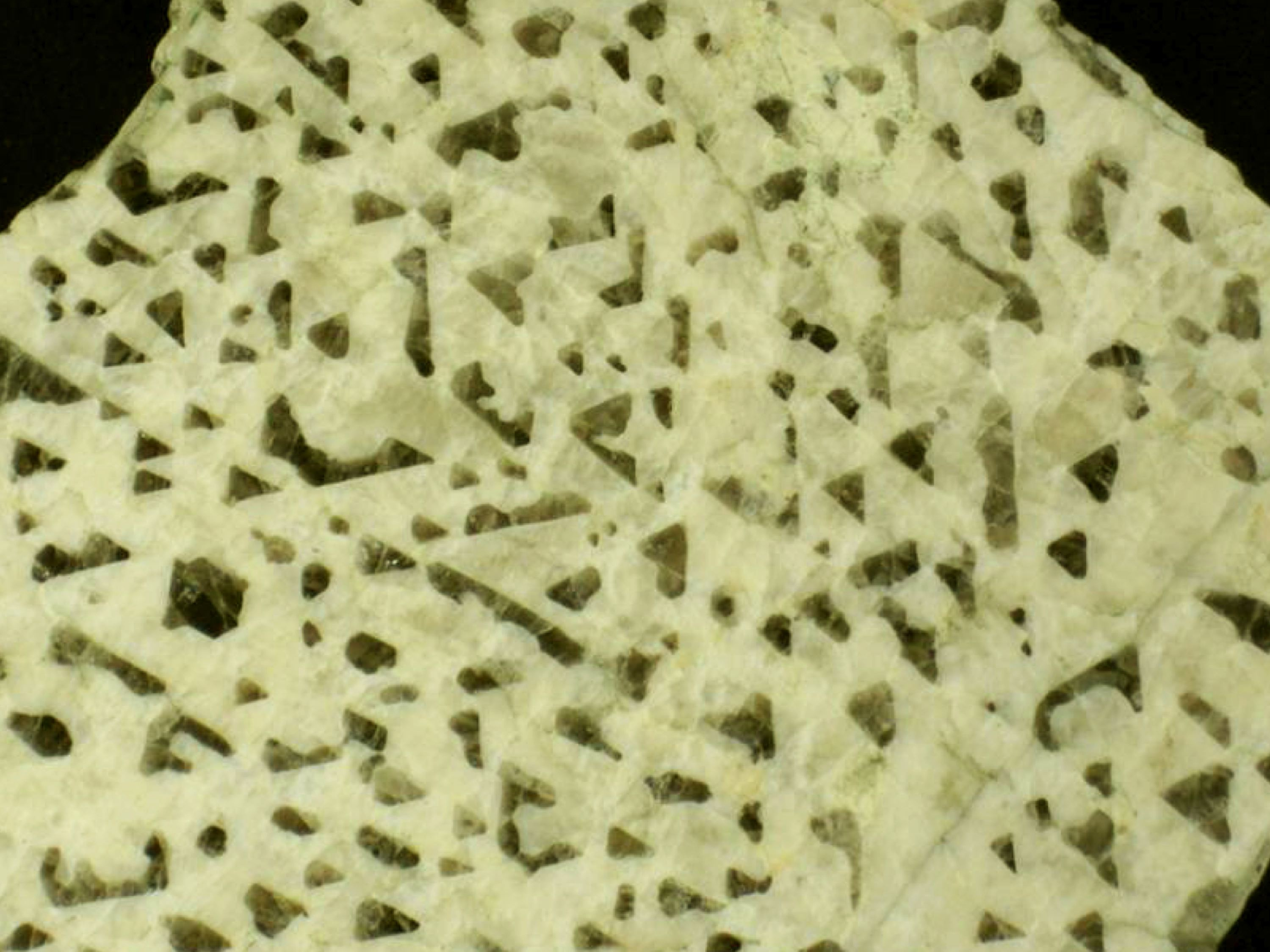 Graphic granite from the Precambrian of Russia’s Kola Peninsula. Geologic unit & age - apparently from a Paleoproterozoic granite pegmatite intrusion, Belomorian Terrane (Kola Province), Baltic Shield (Fennoscandian Shield). Locality: Enskoye, east of Kovdor, ~257 km west of the town of Apatity in the southwestern Kola Peninsula of far-northwestern Russia. Graphic granite (a.k.a. runic granite; a.k.a. runite) has an odd but distinctive type of crystalline texture. Graphic granites are typically bimineralic (K-feldspar & quartz) and consists of interpenetrating crystals (quartz in K-feldspar), in a way that somewhat resembles ancient cuneiform writing (“graphic”). Some observed examples resemble Arabic writing. These rocks occur in pegmatitic granite intrusions.